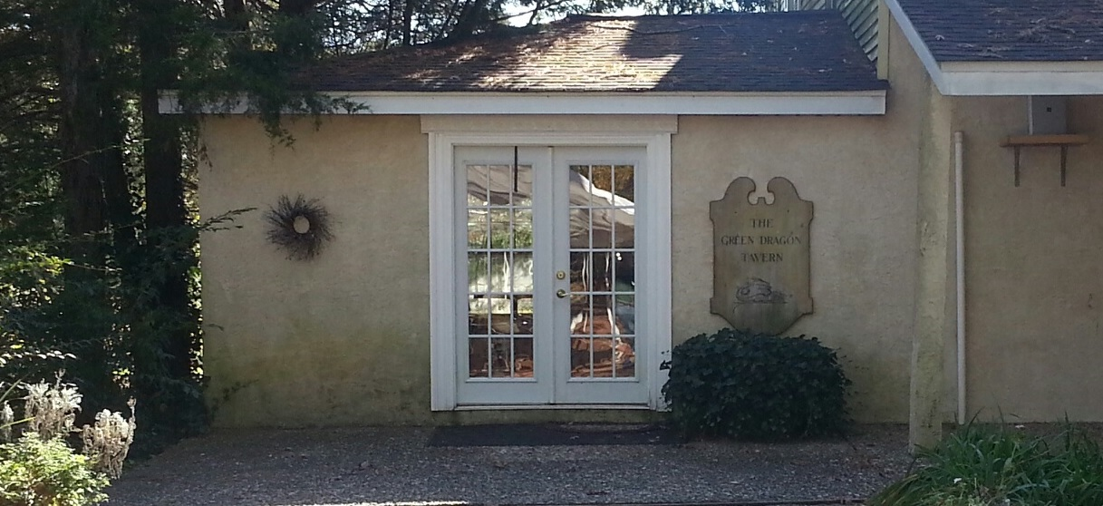 A picture of the Green Dragon Tavern at Amalthea Cellars in Atco, NJ. Named after the historic Green Dragon Tavern in Boston, the facility was formerly a restaurant, and is now used for special events.